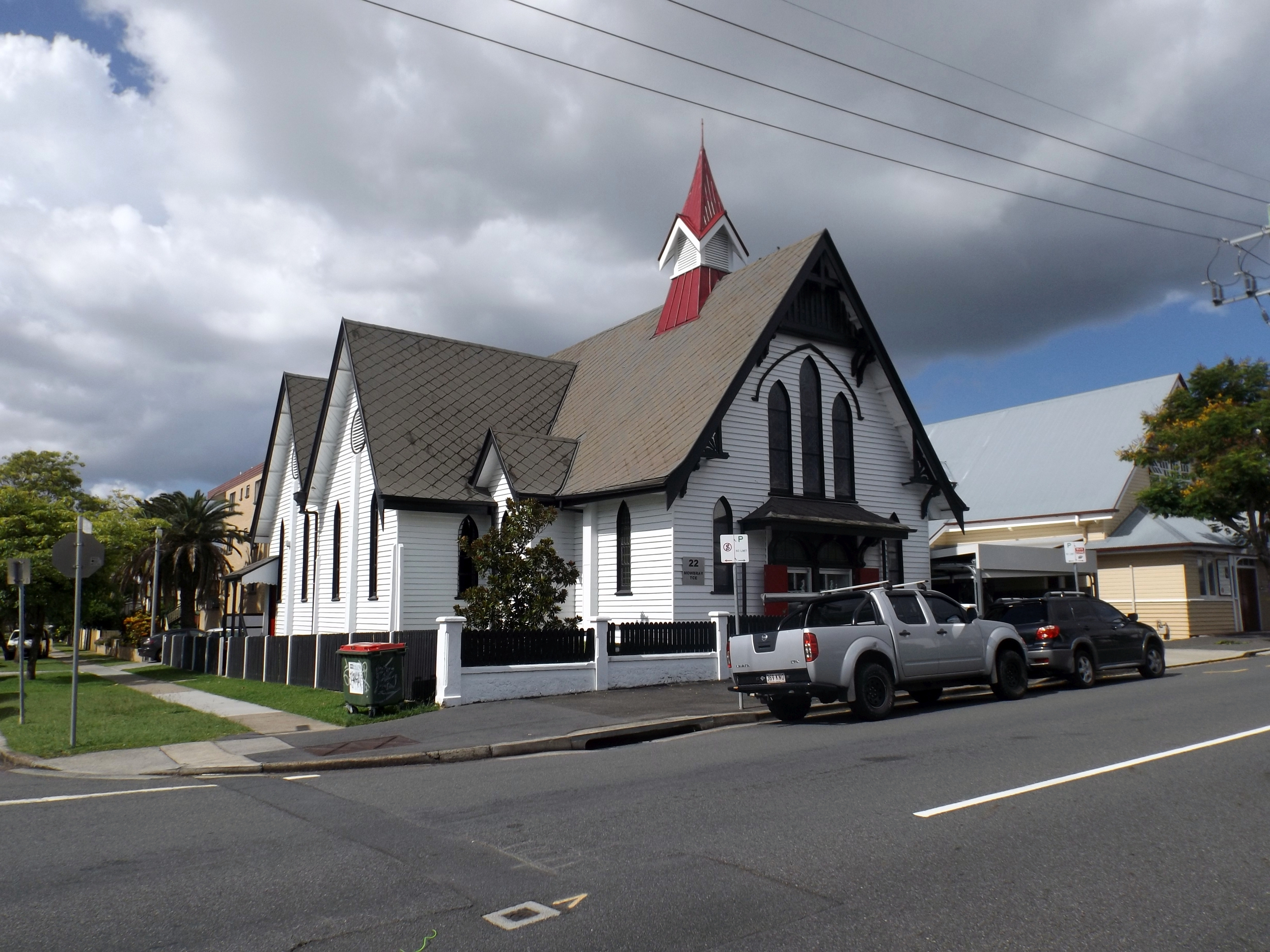 Photo of Mowbraytown Presbyterian Church Group in East Brisbane, Brisbane, Queensland, Australia.